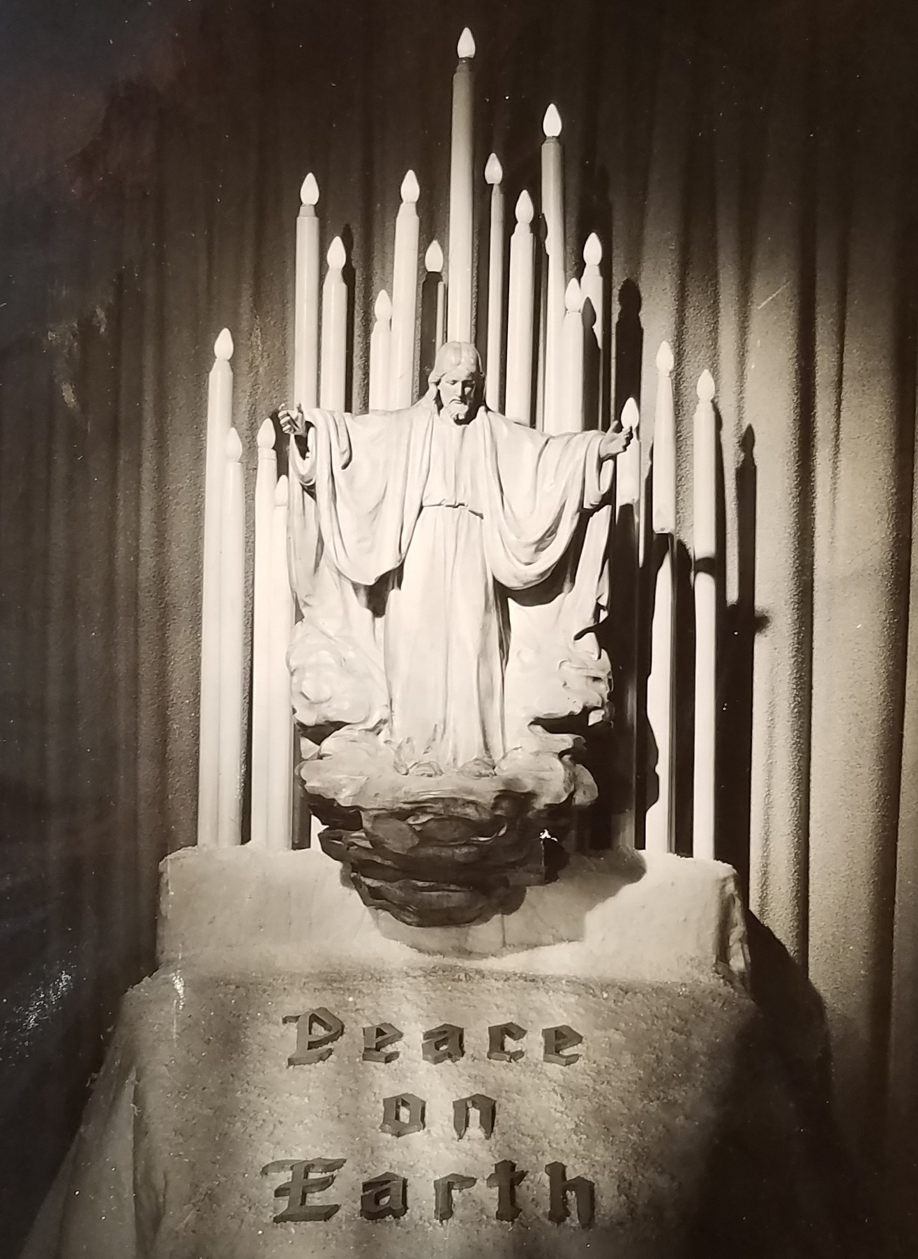 Carved Maple-wood figure of Jesus Christ ascending into heaven. 38" x 38"; as seen in 1945.